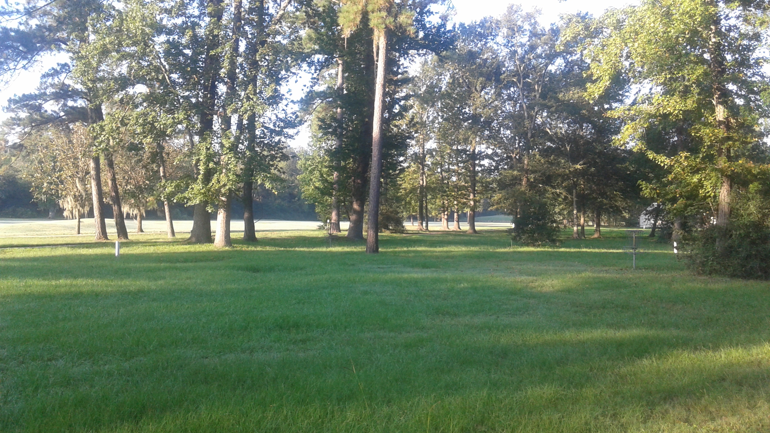 Gwen Hruska Park in the unincorporated community of River Plantation in Montgomery County, Texas.